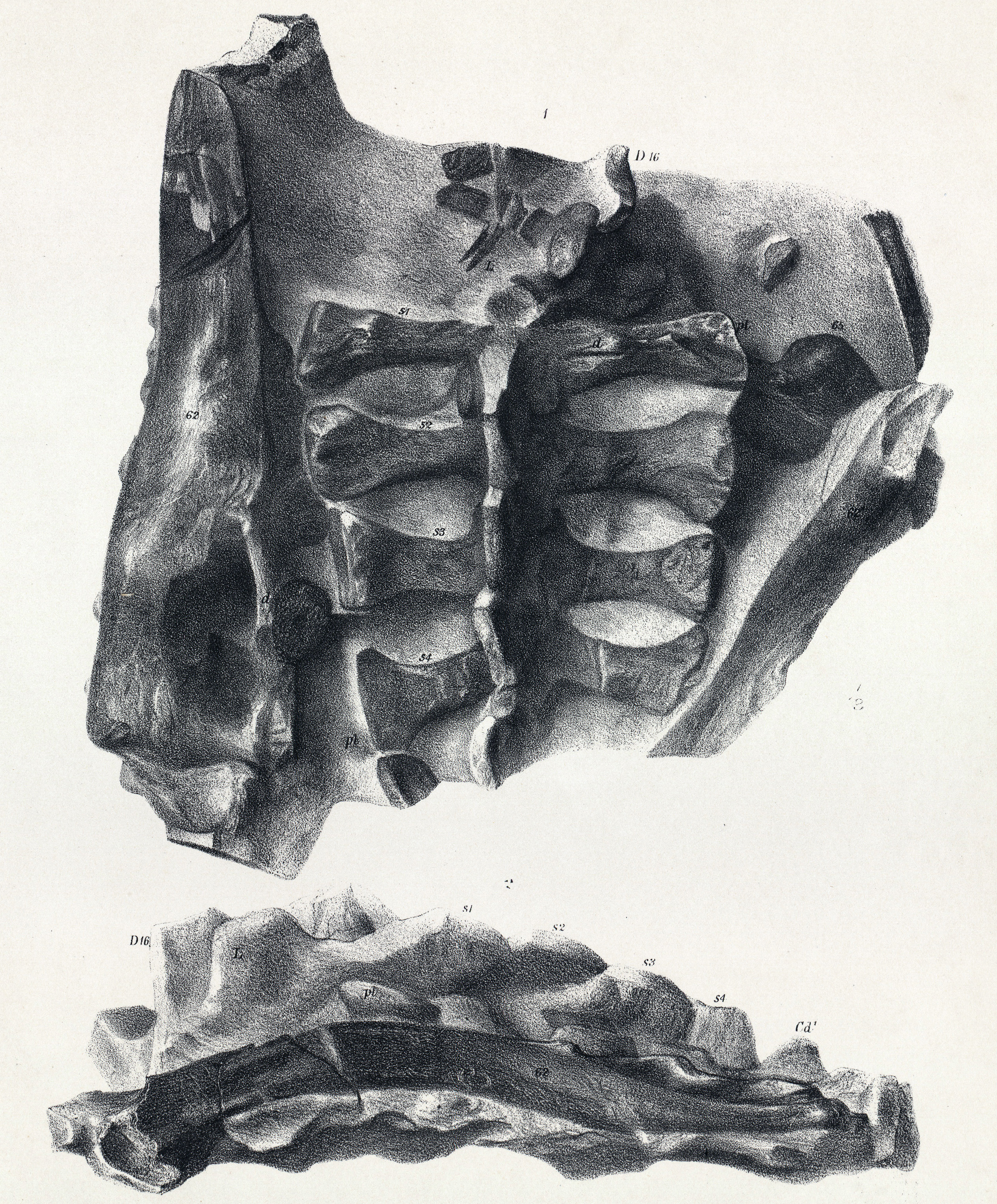 Scelidosaurus Harrisonii. Fig. 1. Upper surface of four sacral vertebræ, with portions of the iliac bones. Fig. 2. Side view of an iliac bone with the same vertebræ. One third the natural size.